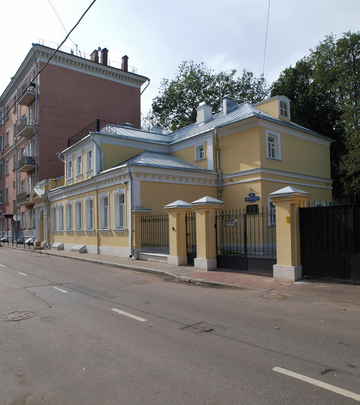 Moscow: Schetininsky Lane, 10. Museum of Vasily Tropinin and his period.